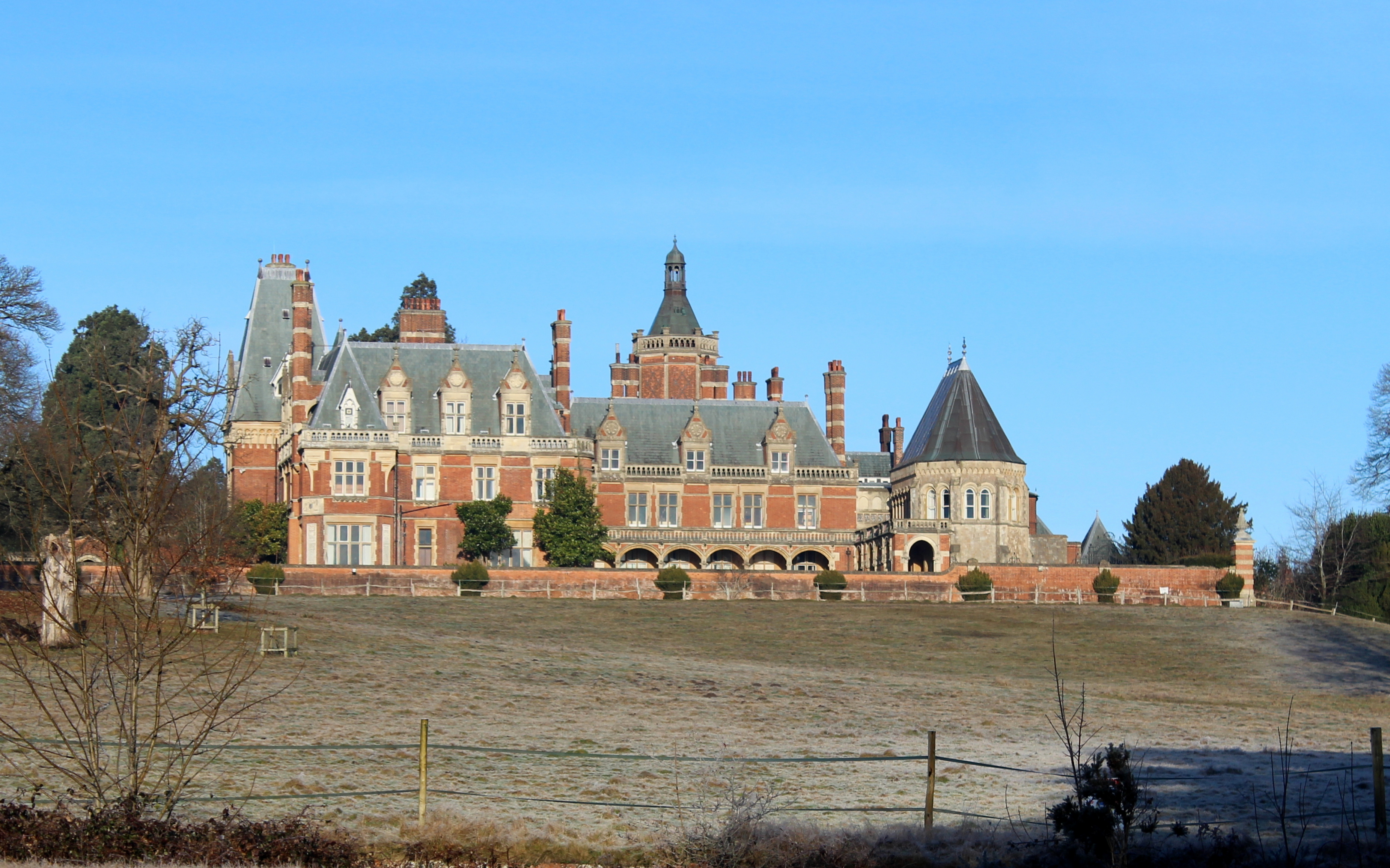 Minley Manor: An MOD listed country manor house, built in the 1860s by Henry Clutton. It was used as a Royal Engineers officers' mess until November 2014 when it was sold to an "international investor".